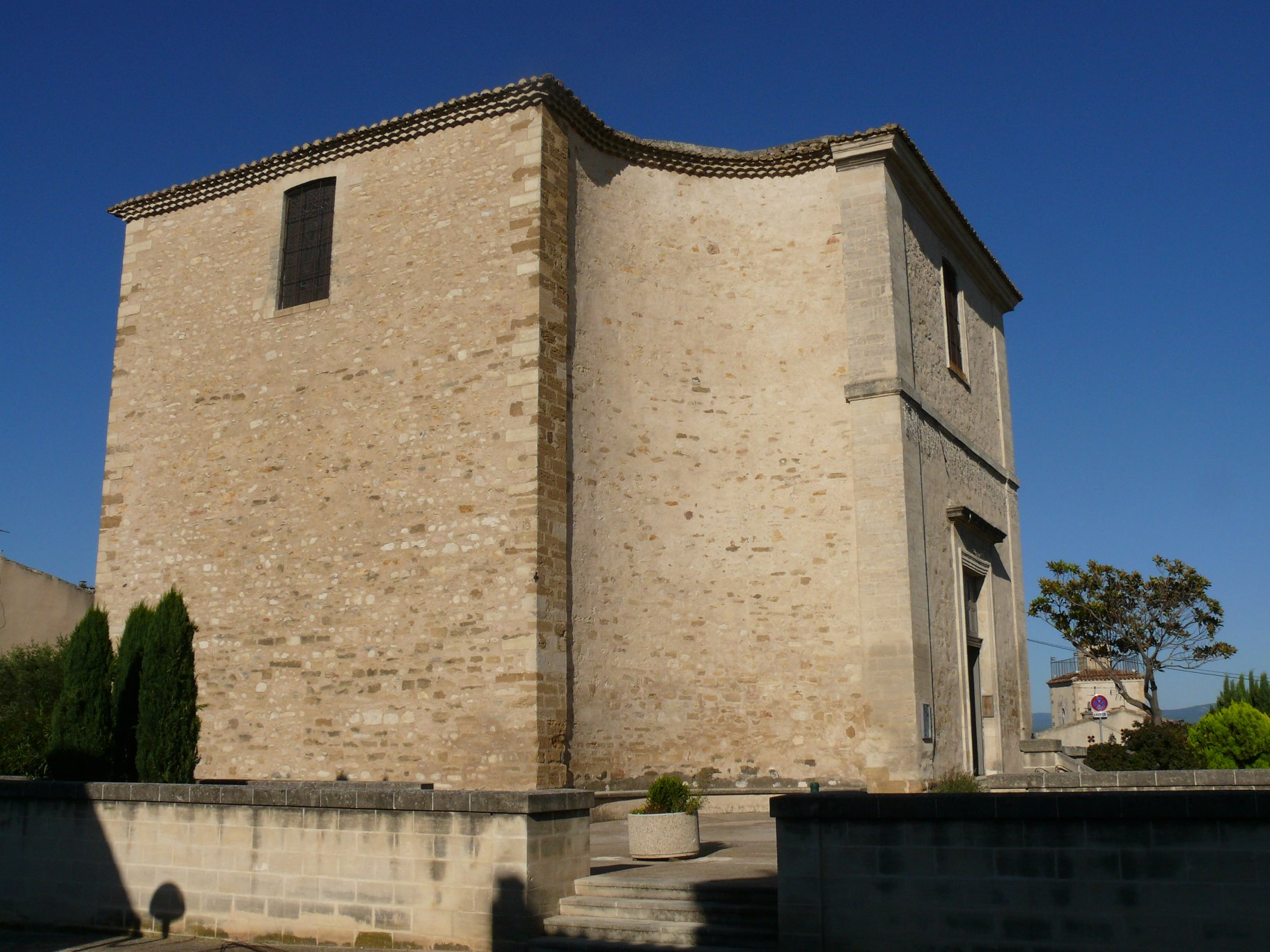 Saint-Thomas' church of Vedène (Vaucluse, Provence-Alpes-Côte d'Azur, France).